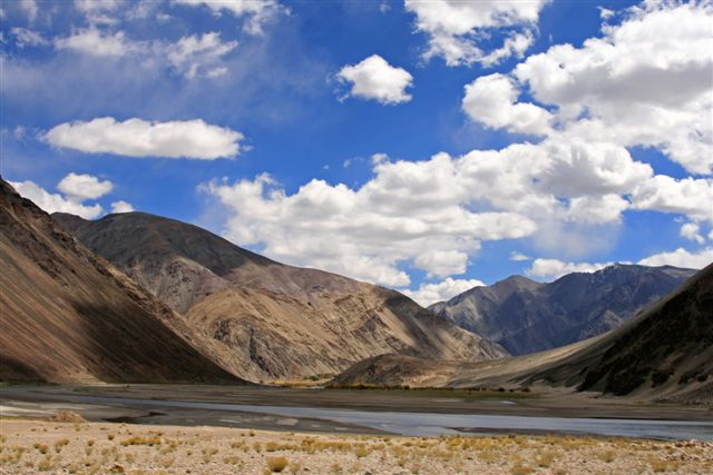 Mountains in Ladakh, Northern India.